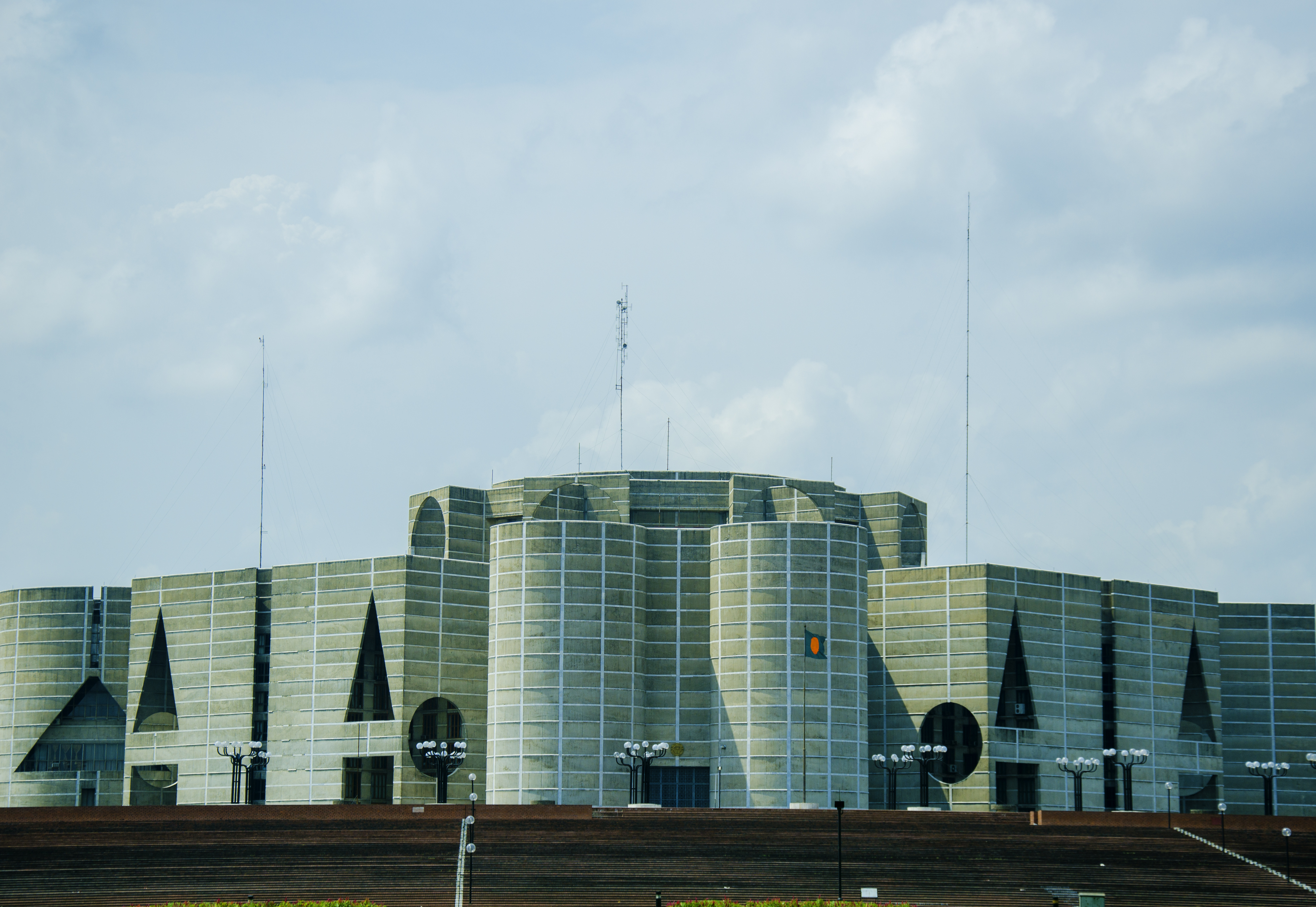 Jatiyo Sangsad Bhaban, Bangladesh.